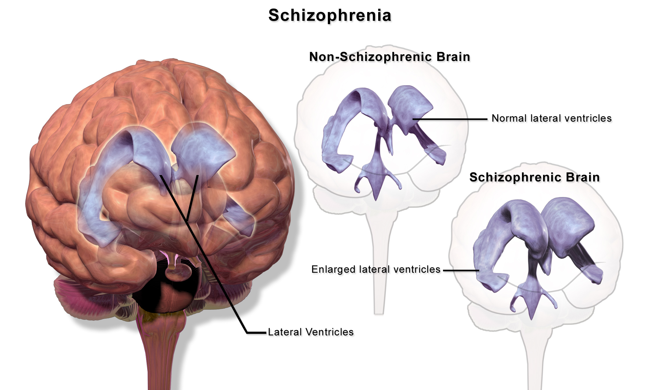 An illustration depicting schizophrenia.